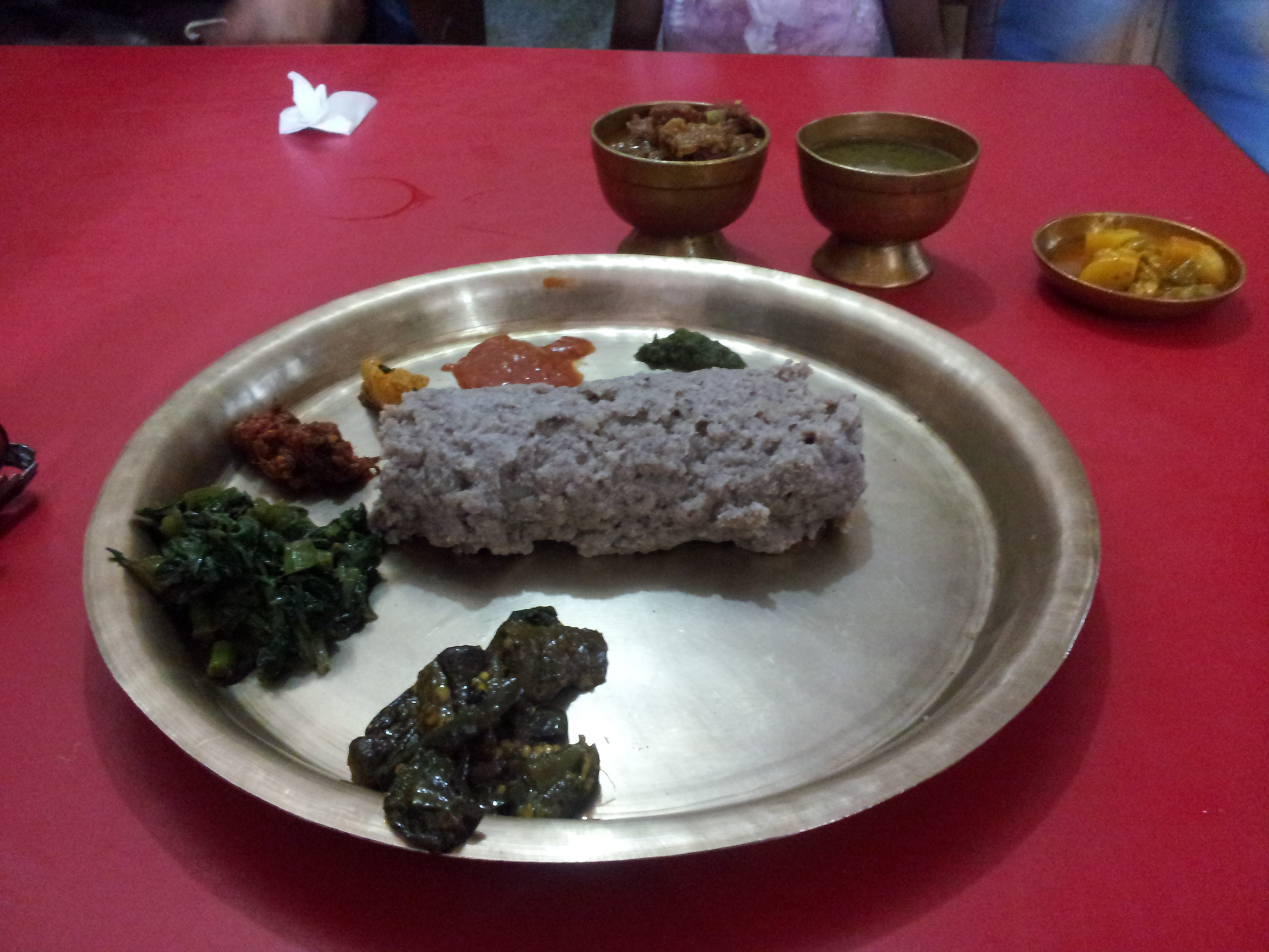 a plate of dhindo served in table for lunch.